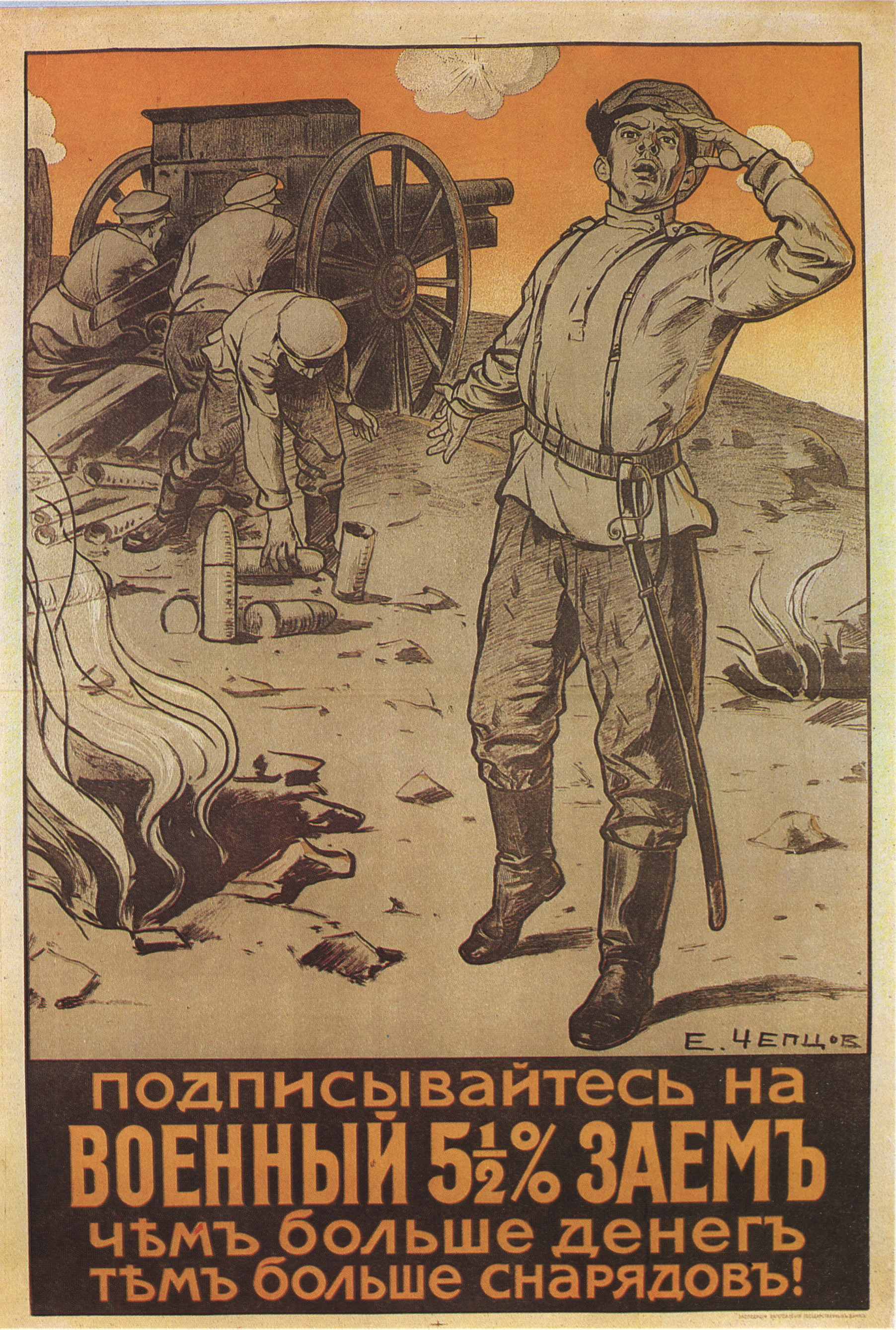 Russian WWI era poster calling to buy war bonds.